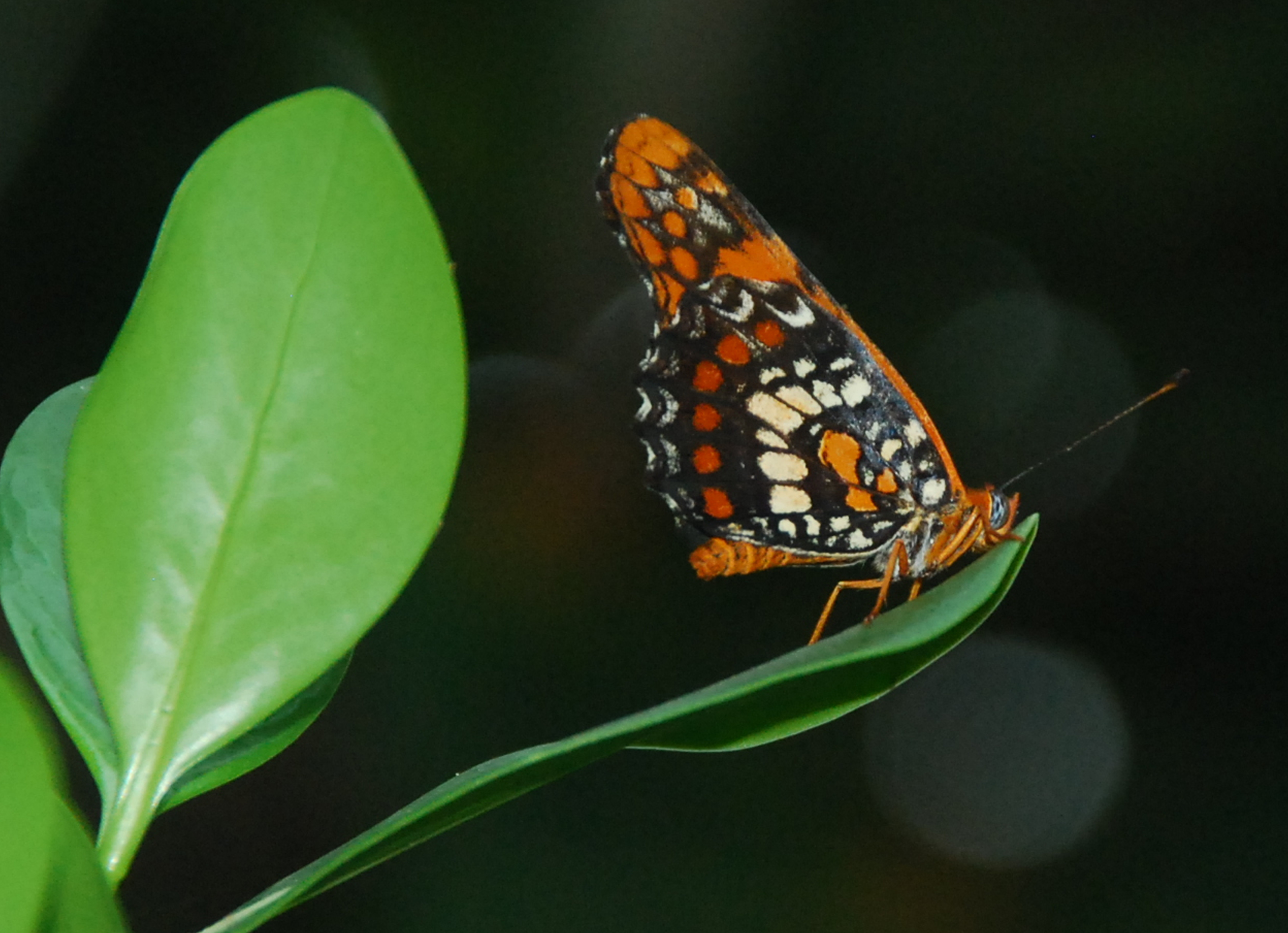 Atlantea tulita in Puerto Rico